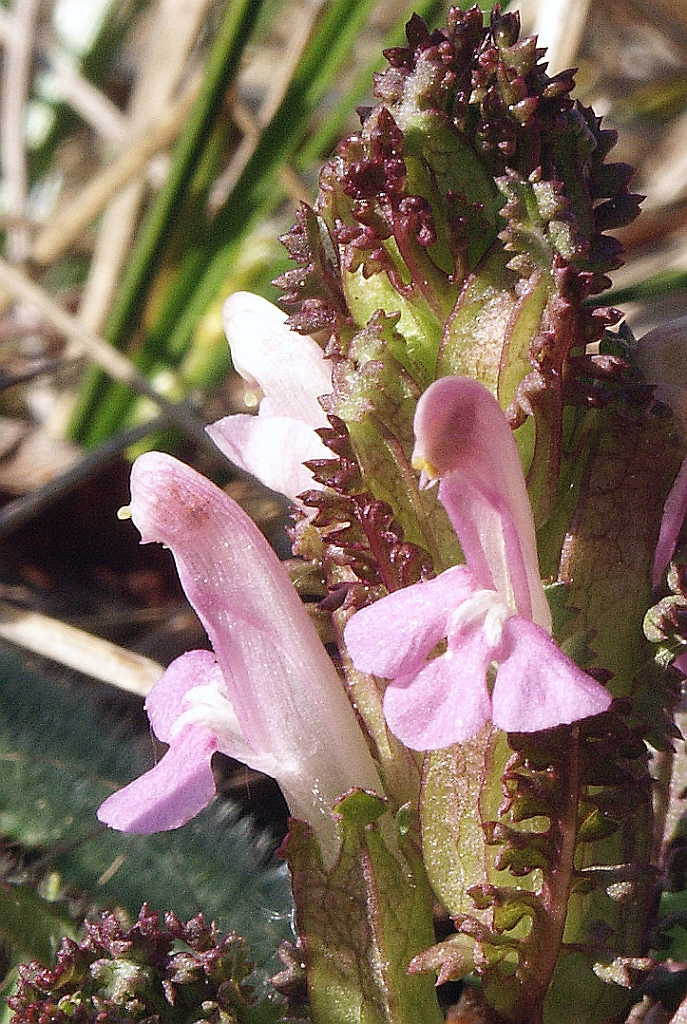 Pedicularis sylvatica, Virngrund, Germany